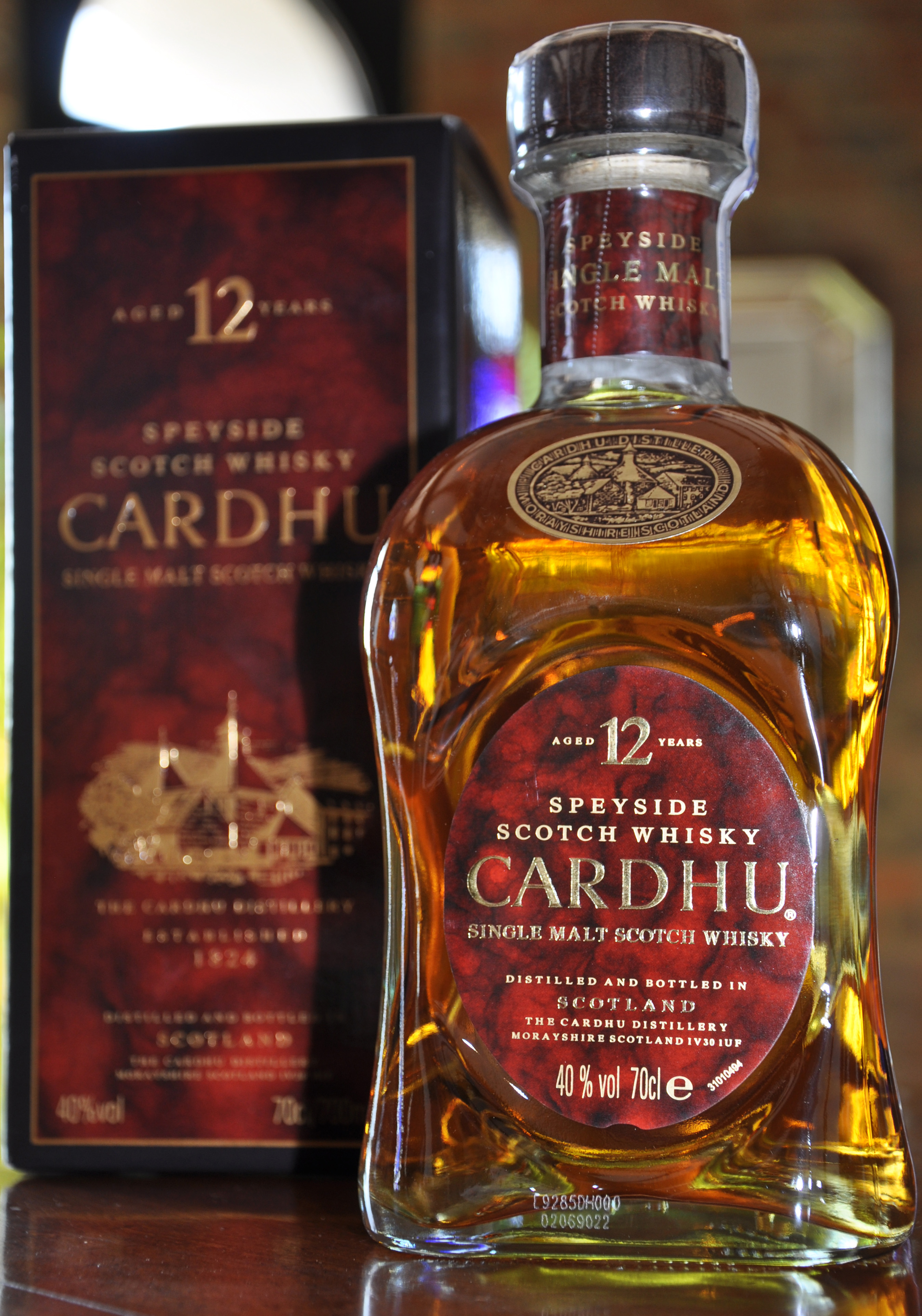 Bottle and Box of CARDHU Single Malt Whisky